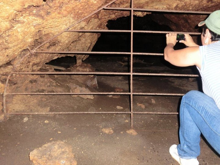 A gate installed to prevent vandalism in Cuevas de Paraguaná Wildlife Sanctuary